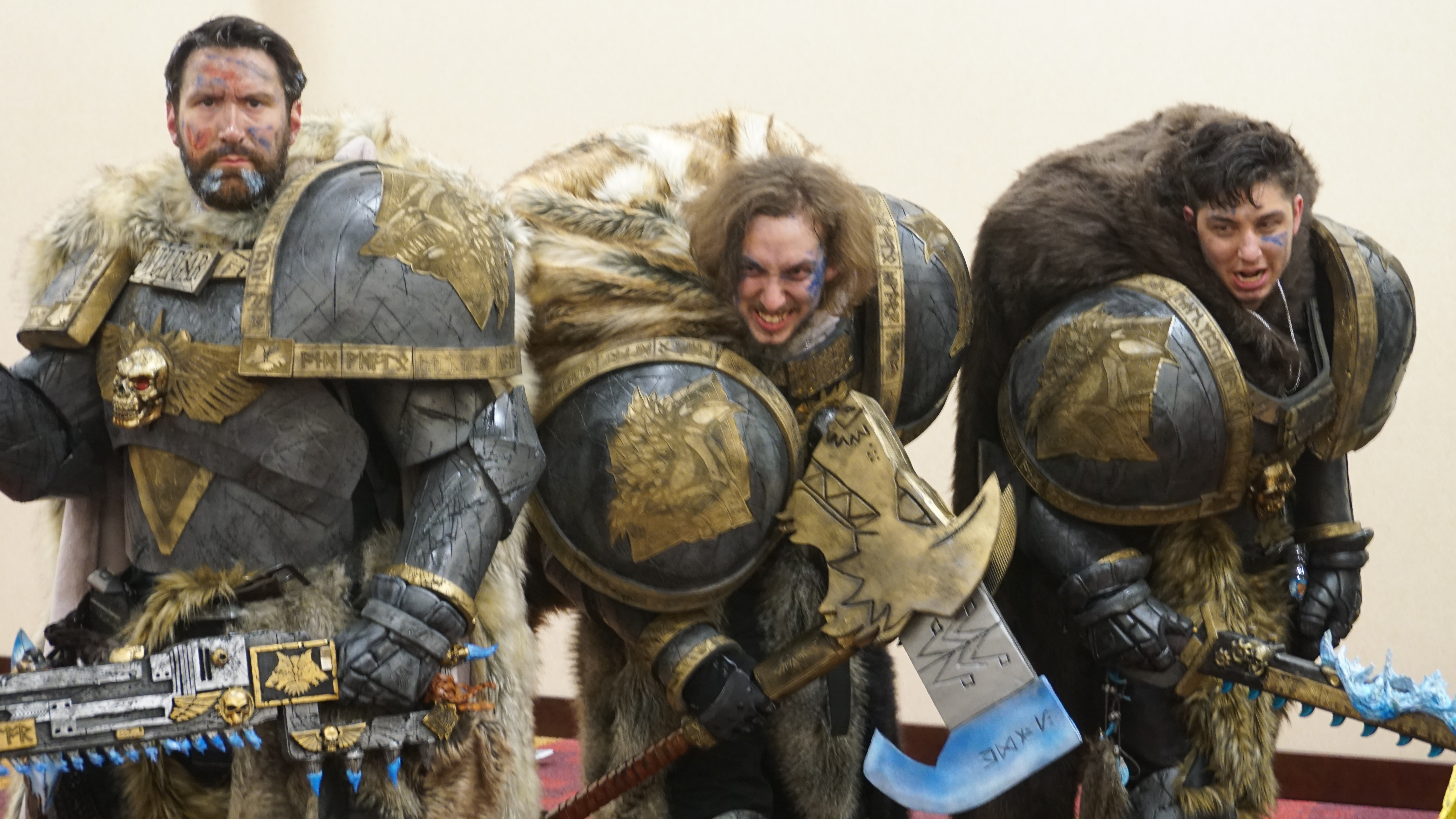 Cosplay at Gencon 2016: Warhammer Universe